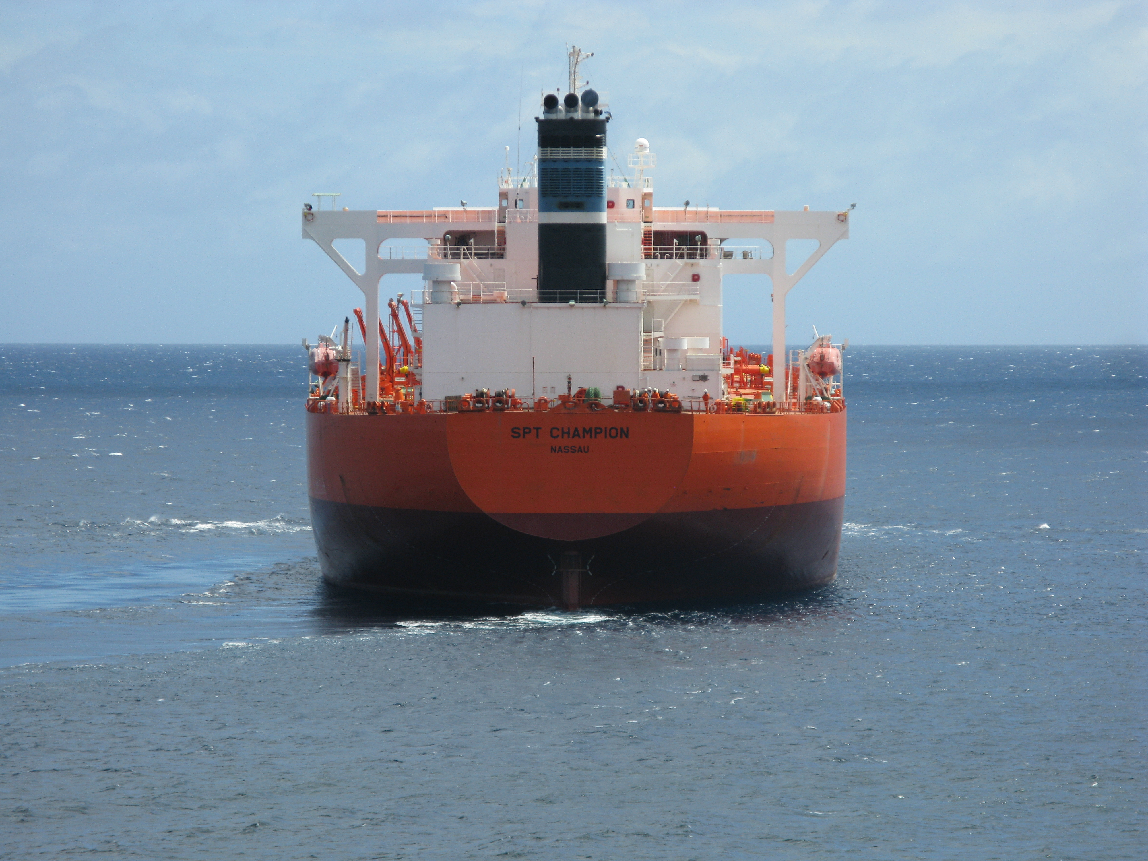 SPT Champion, a double-hulled oil tanker, leaving the port of Willemstad, Curaçao.